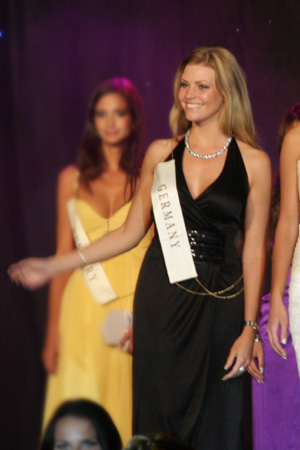 Miss Germany 2008 Anne Katrin Walter during Miss Word 08 in Johannesburg